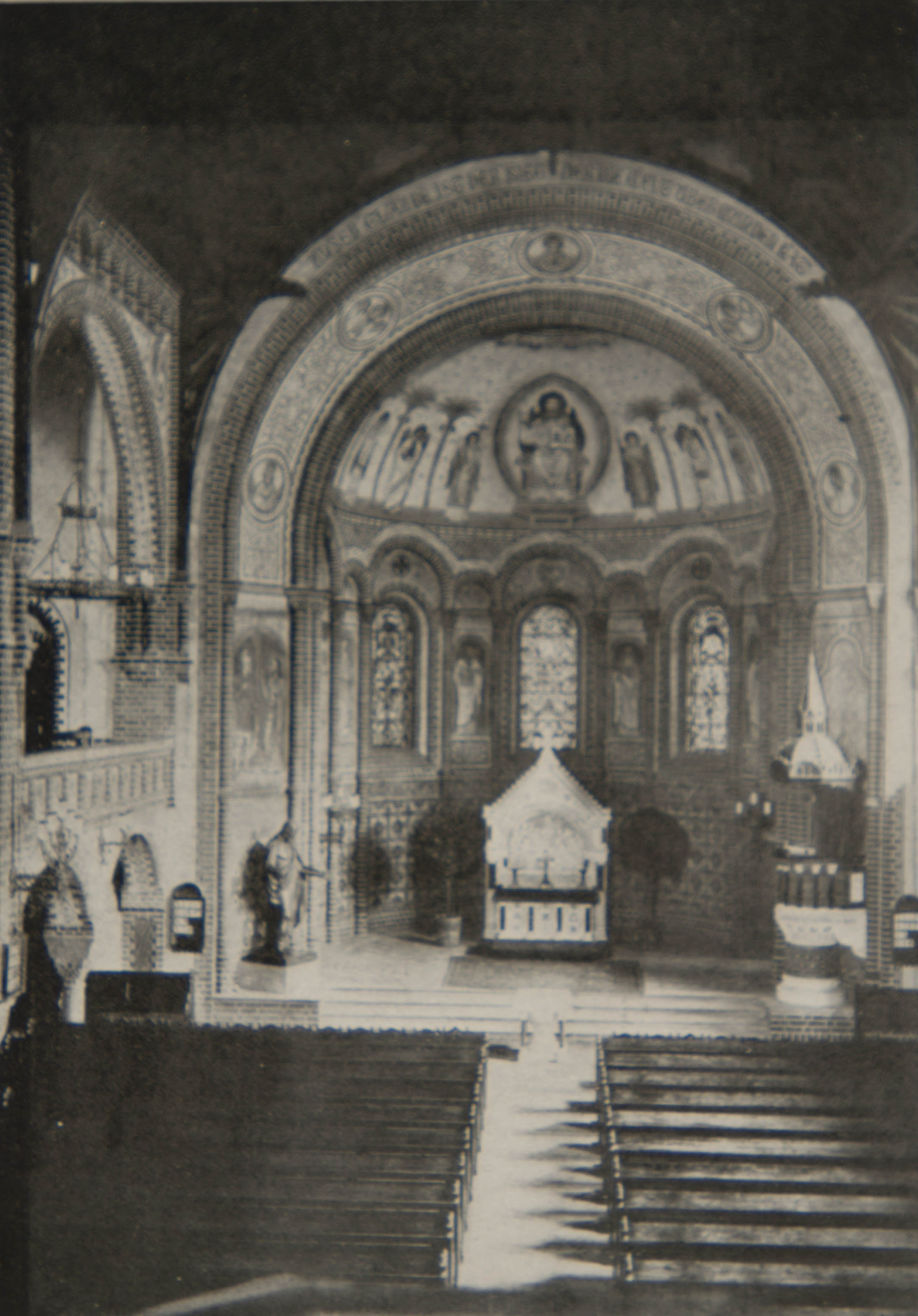 Innenraum Kapernaumkirche vor 1945